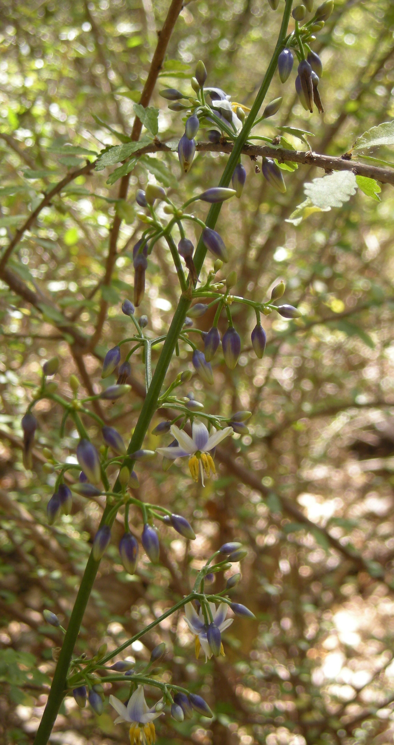 Dianella species flowers, Mount Archer National Park, Rockhampton